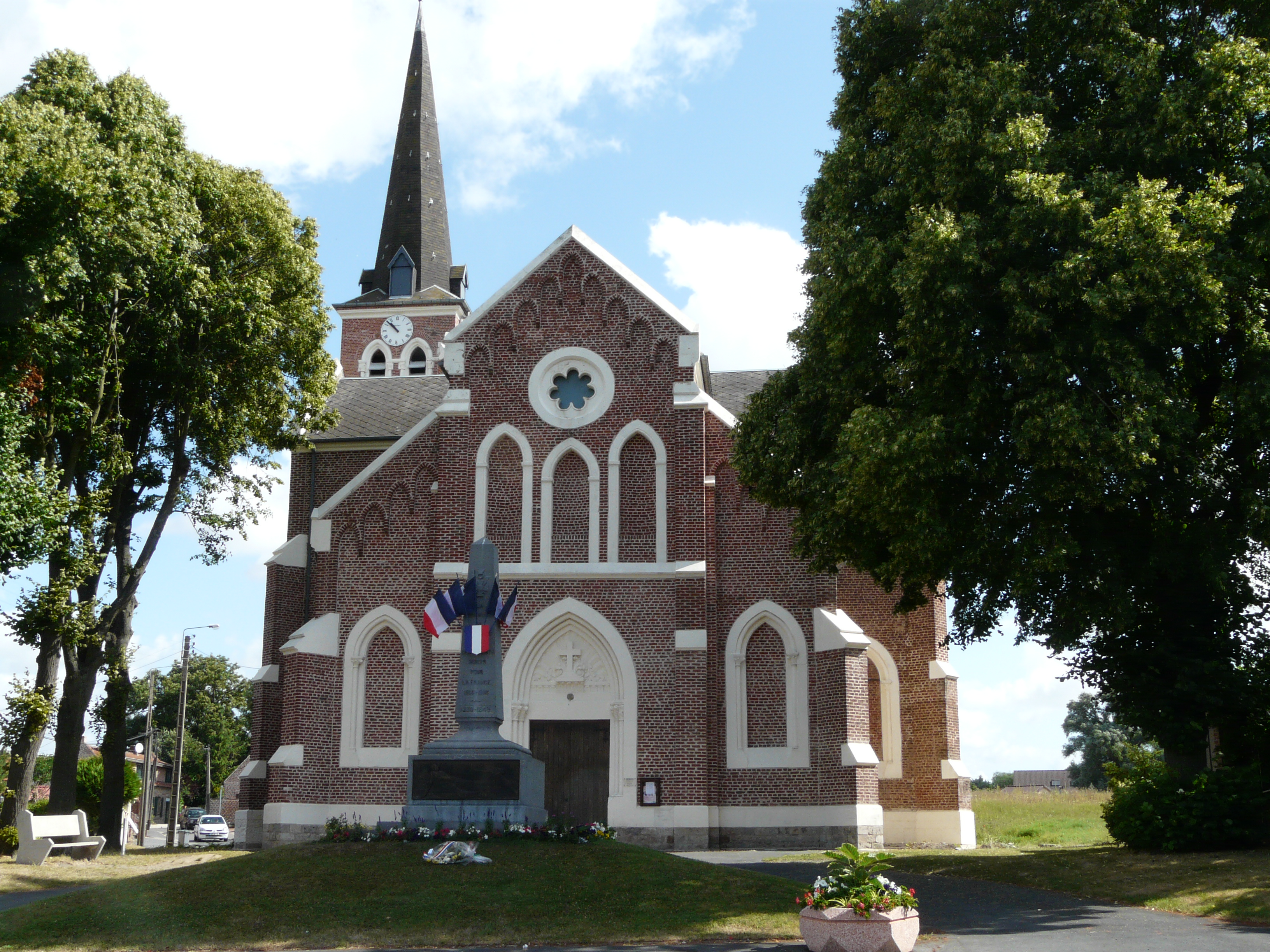 The parish church in Niergnies, France (department of Nord) and monument to the victims of WWI